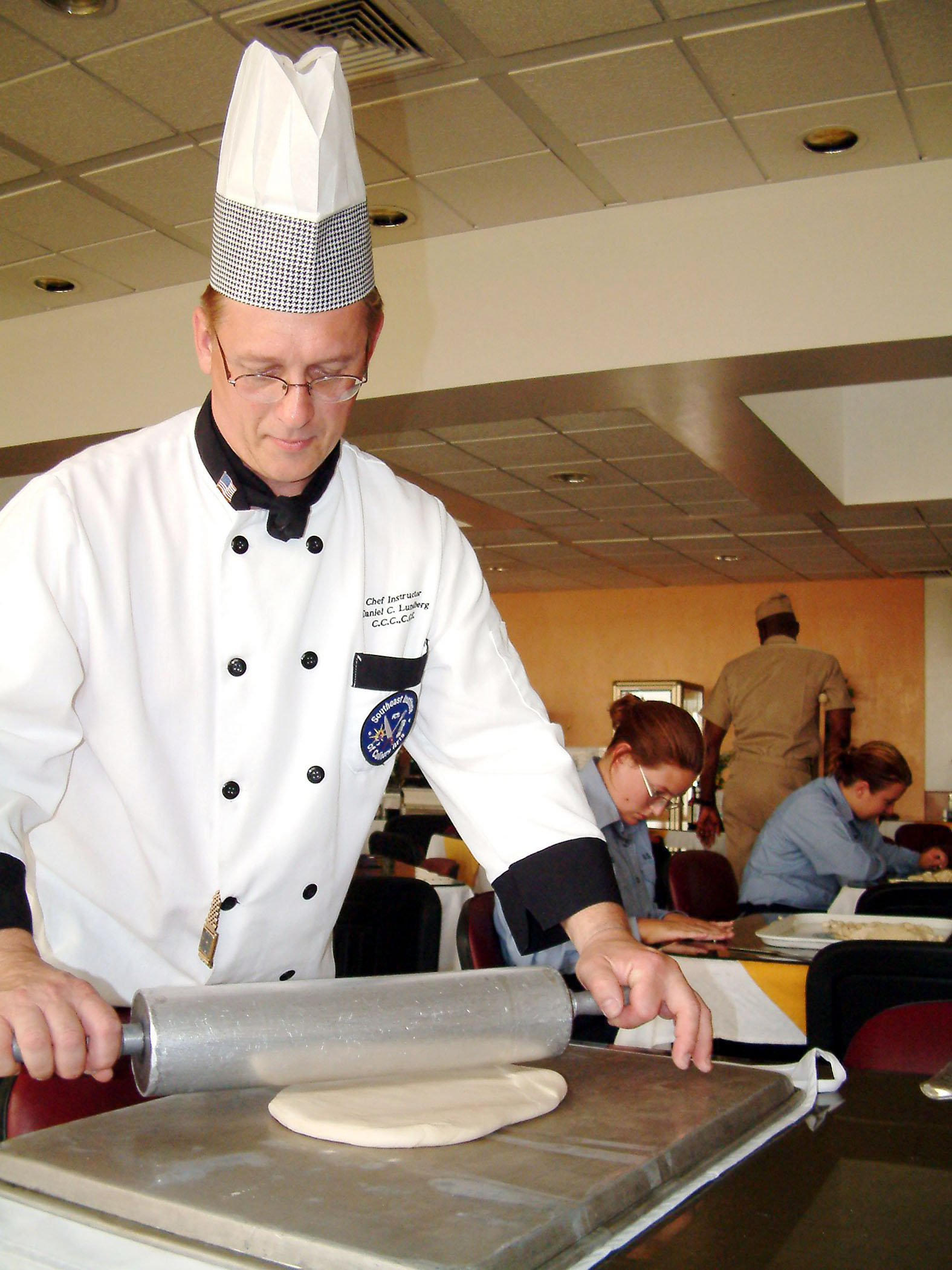 Naval Air Station (NAS) Sigonella, Sicily (Jul. 17, 2003) -- Daniel Lundberg, an instructor from the First Coast Technical Institute School of Culinary Arts in Saint Augustine, Fla., uses a rolling pin to flatten dough during a two-week Culinary Arts Course at the NAS Sigonella Galley. Lundberg co-instructed the course which taught the Mess Management Specialists the intricacies of culinary arts, and gave certificate courses in sanitation and nutrition. NAS Sigonella provides logistical support for Sixth Fleet and NATO forces in the Mediterranean Sea. U.S. Navy photo by Journalist Seaman Stephen P. Weaver. (RELEASED)